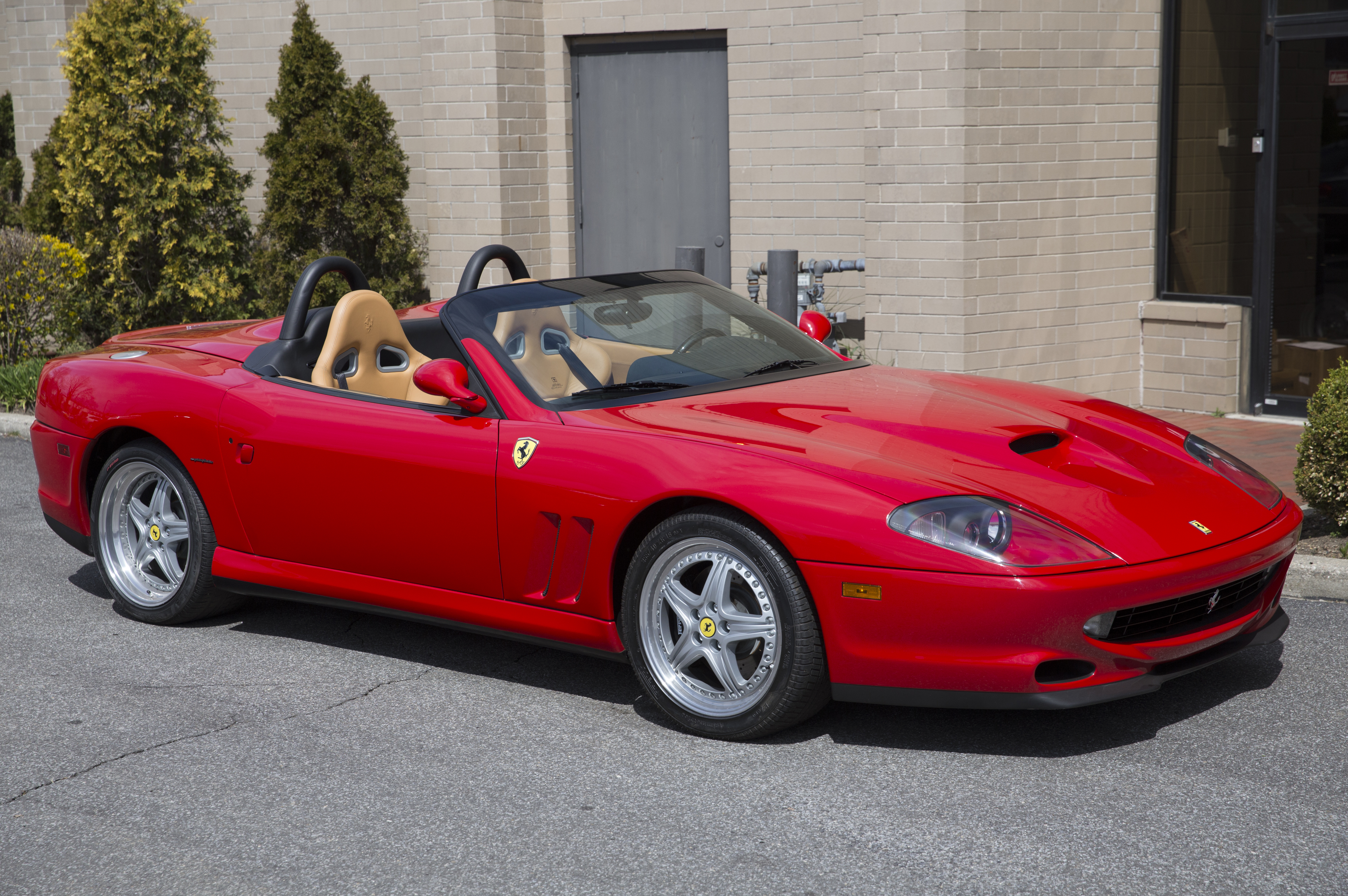 2001 Ferrari 550 Barchetta, the 135th of 448 cars produced. Rosso Corsa with Pelle beige leather, 4000 miles. US-spec car, although it was originally delivered to an unspecified South American country. Includes the original Pininfarina open-faced helmets! Photographed at Autosports Designs in Huntington, NY (Long Island), from where it was very recently sold.